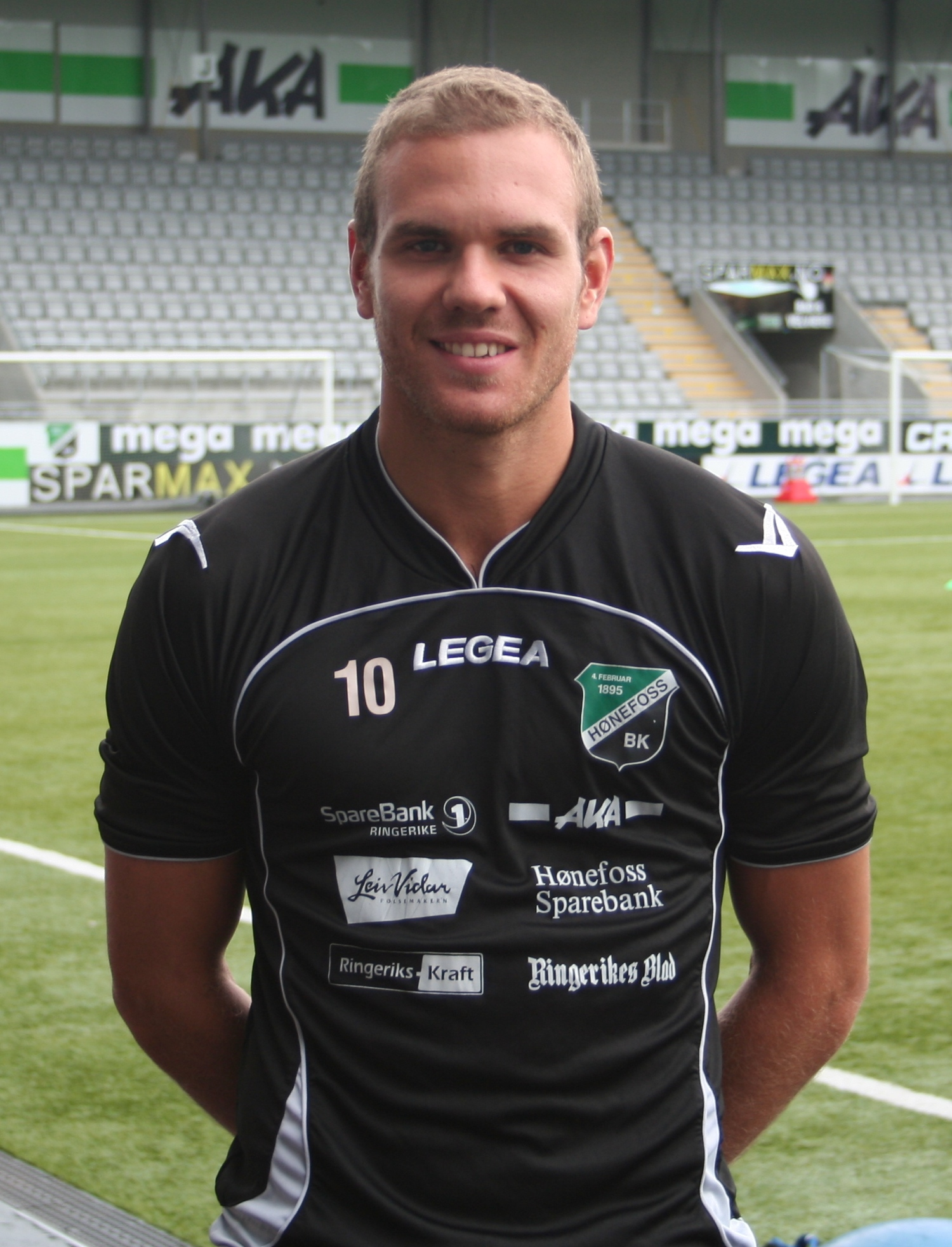 Stian Sortevik, a Norwegian football player who plays for Hønefoss Ballklubb in Norway.